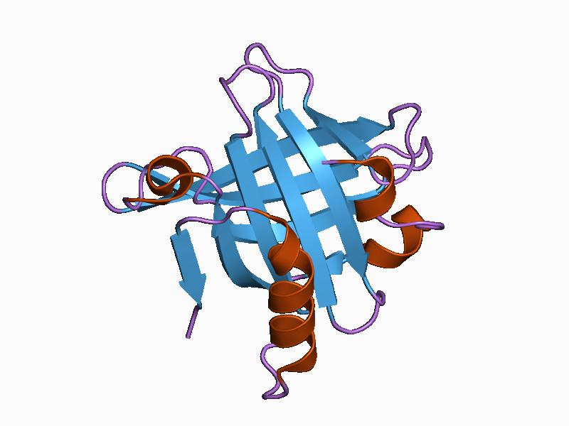 Cartoon representation of the molecular structure of protein registered with 1b8e code.